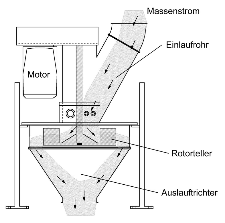 Scheme of a Coriolis weigher